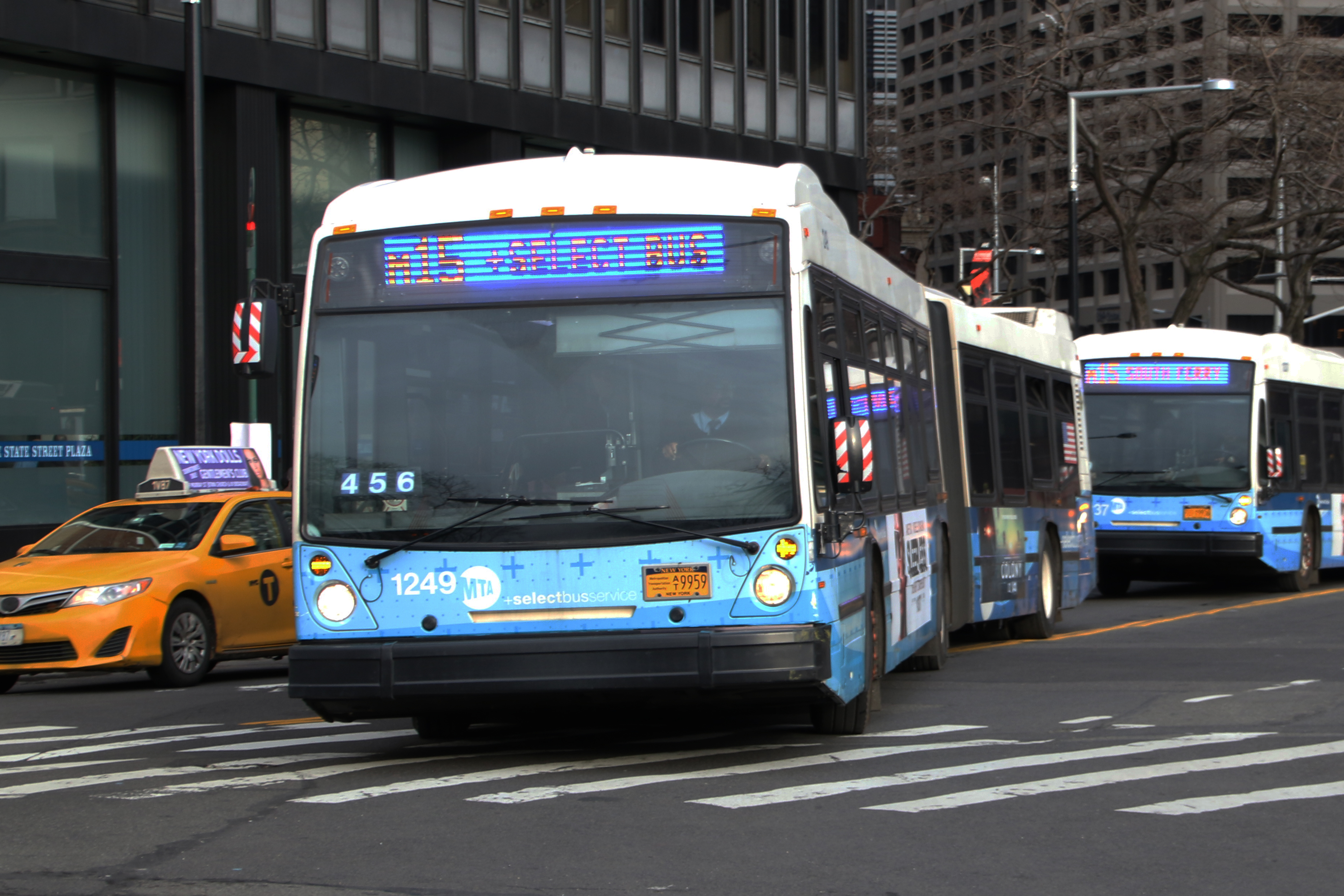 MTA NYC Bus Nova Bus LFS-A (TL60102A) 1249 M15 Select Bus Service bus at South Ferry